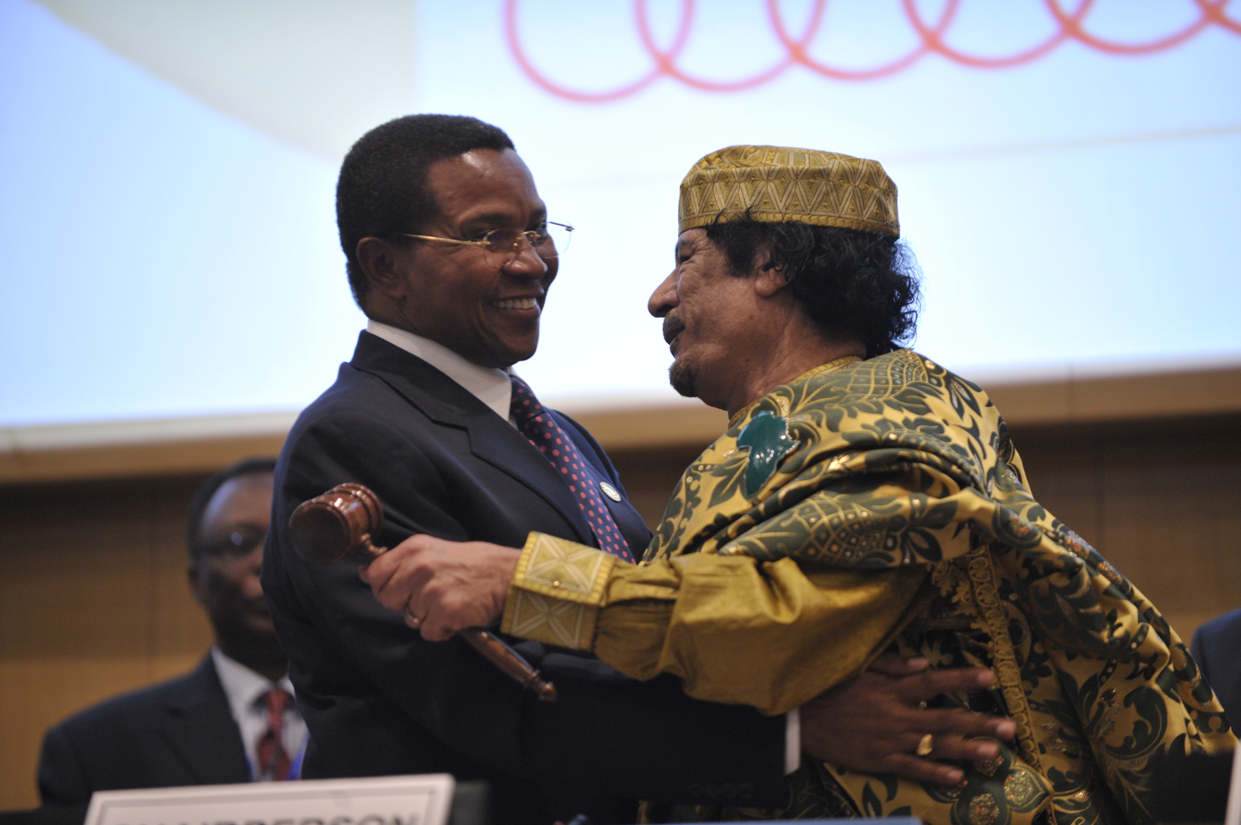 Jakaya Kikwete, left, the president of Tanzania, embraces Muammar Qaddafi, the Libyan chief of state, in the Plenary Hall of the United Nations building in Addis Ababa, Ethiopia, during the 12th African Union Summit Feb. 2, 2009. The assembly elected Qaddafi to relieve Kikwete as chairperson of the African Union.